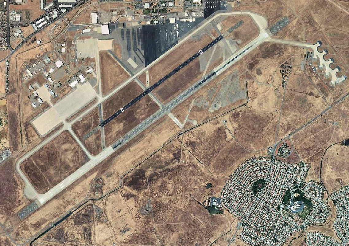 USGS digital orthophoto of Sacramento Mather Airport in California